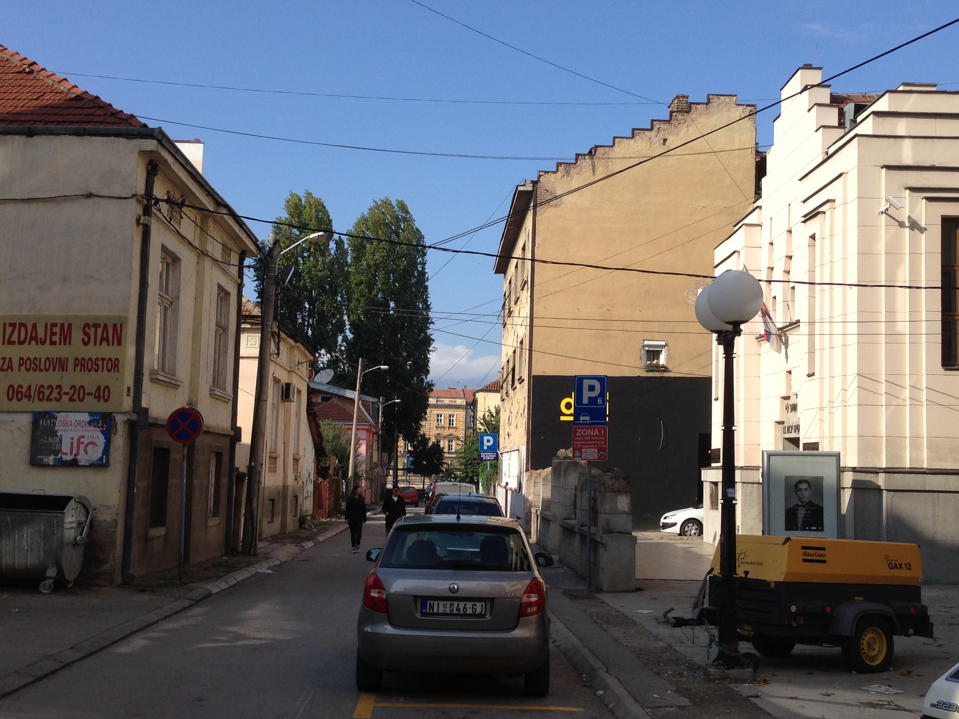 David street in Nis, Serbia